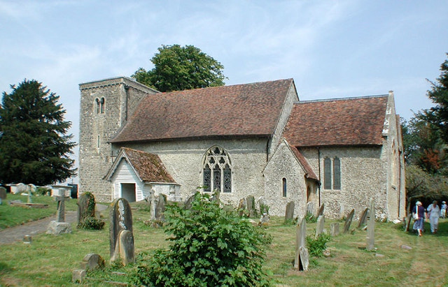 St Mary, Smeeth, Kent